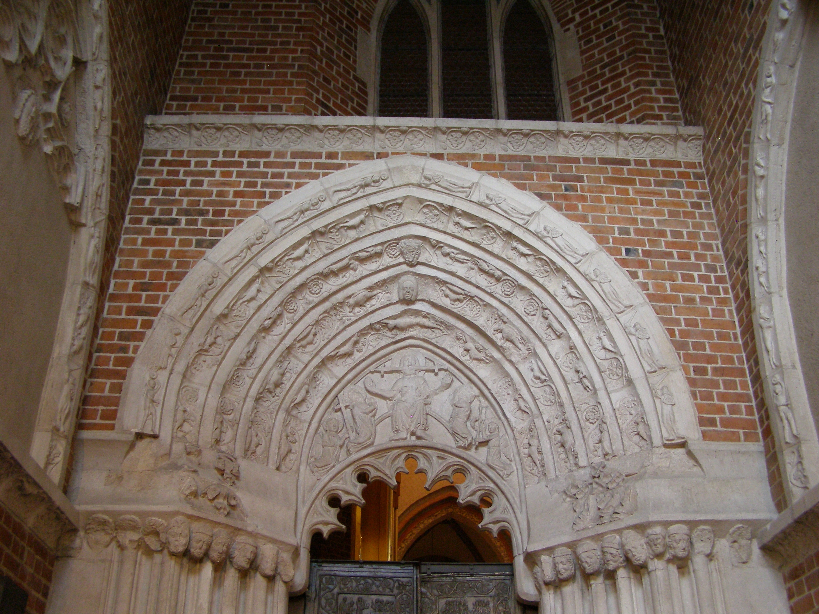 Gniezno - tympanum of the Gniezno Door portal